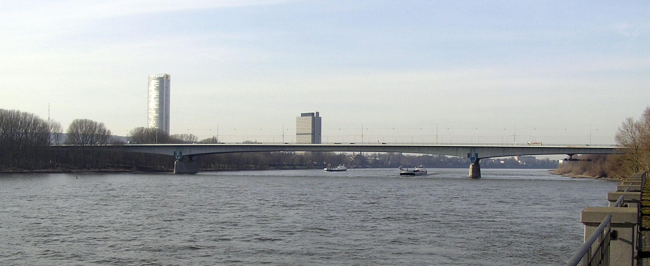 The Konrad-Adenauer bridge in the south of Bonn, Germany.